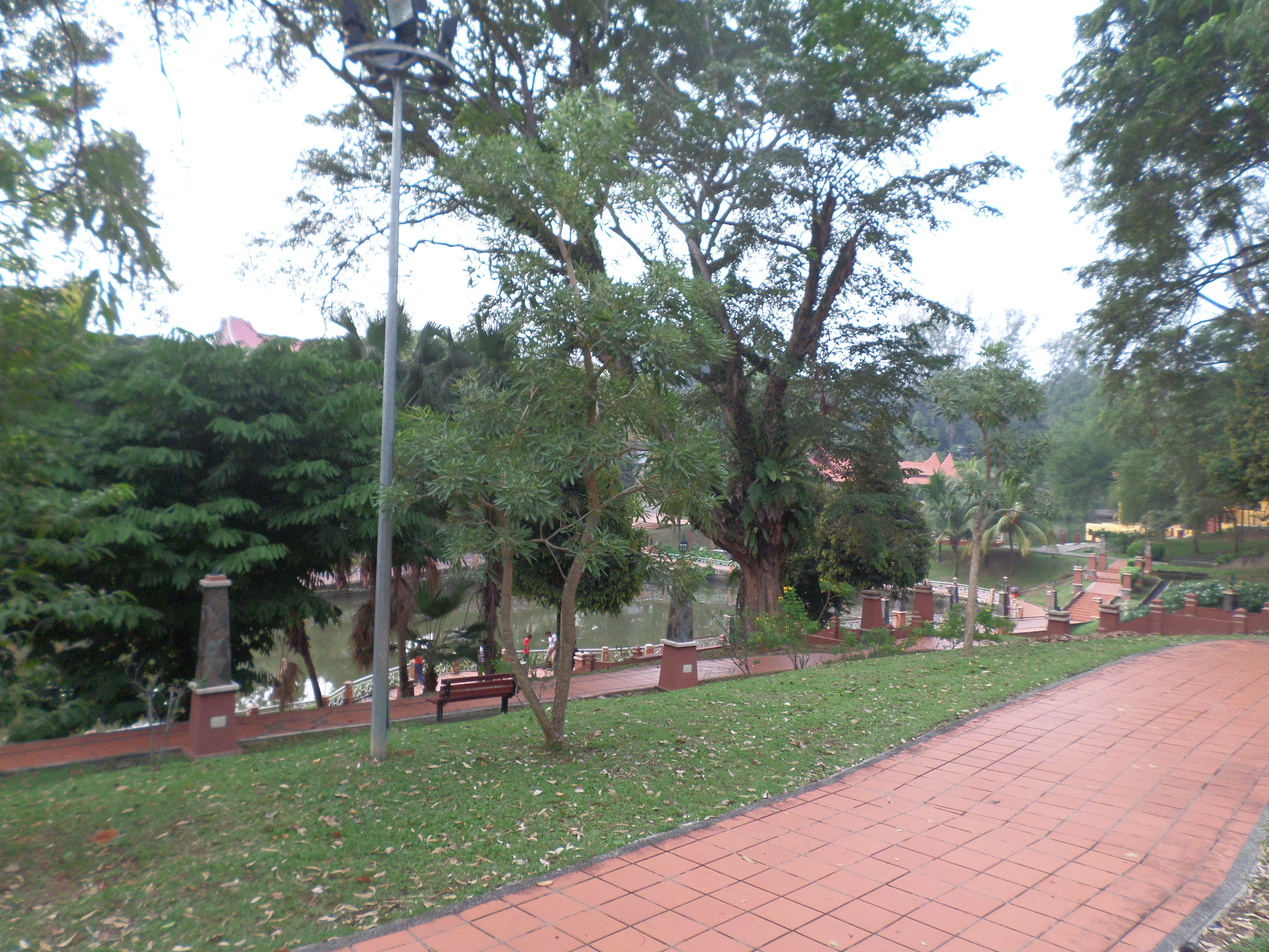 Seremban Lake Park, Seremban, Negeri Sembilan, Malaysia